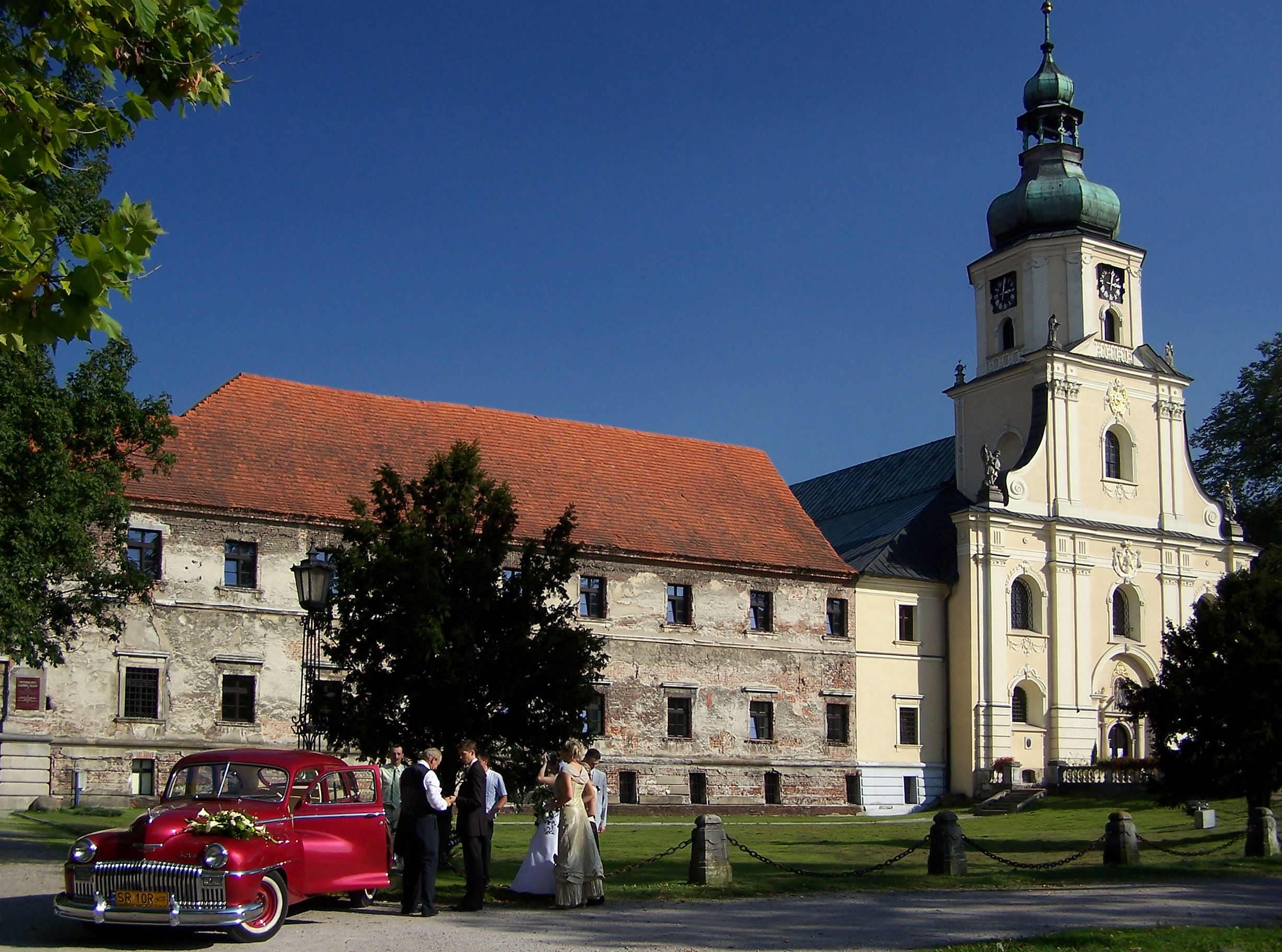 Cistercian abbey of Rudy Wielkie (Poland).